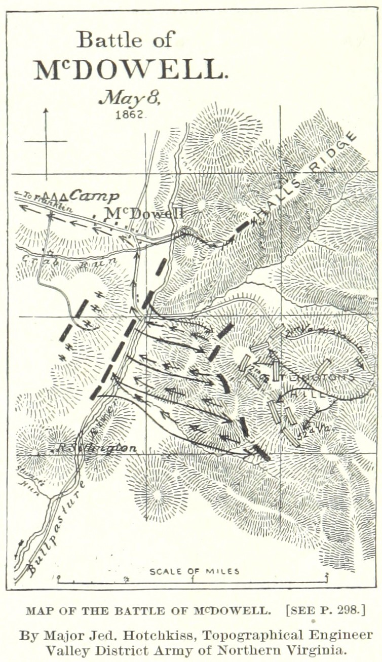 A map of the 1862 Battle of McDowell.